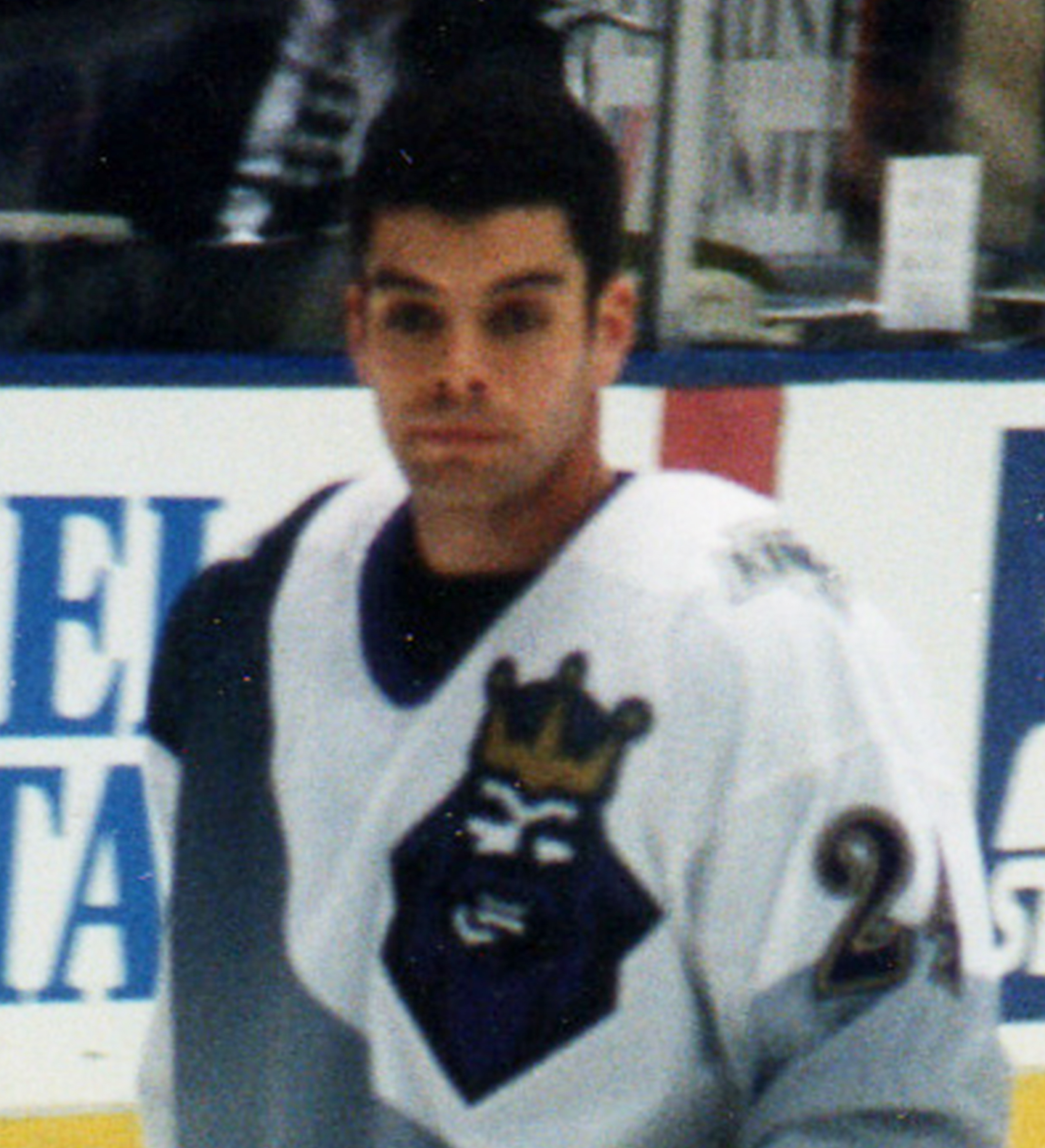 Los Angeles Kings at the Great Western Forum. By Lisa Gansky.